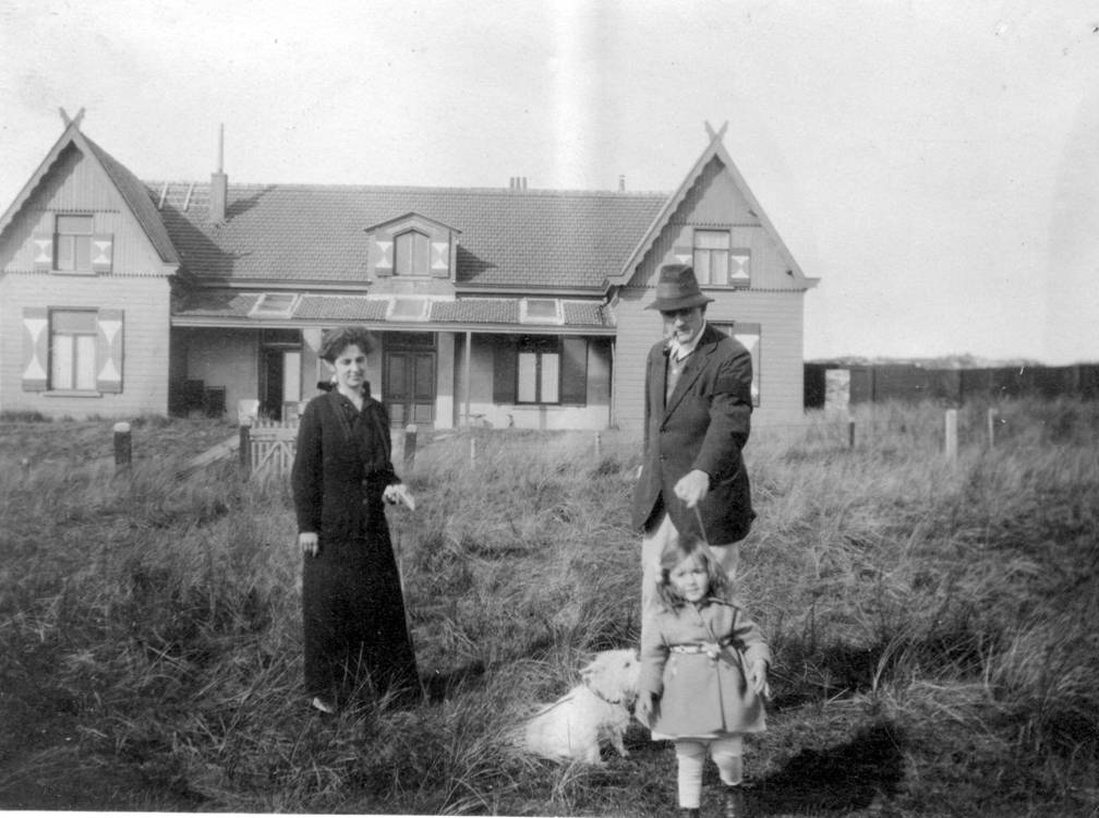 Del Court family